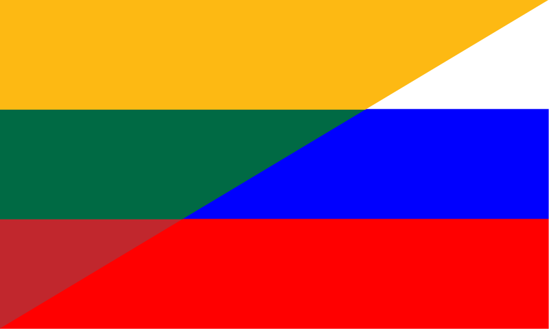 Flag of Lithunian/Russian nationality Hybrid of File:Flag of Lithunia.svg and File:Flag of Russia.svg